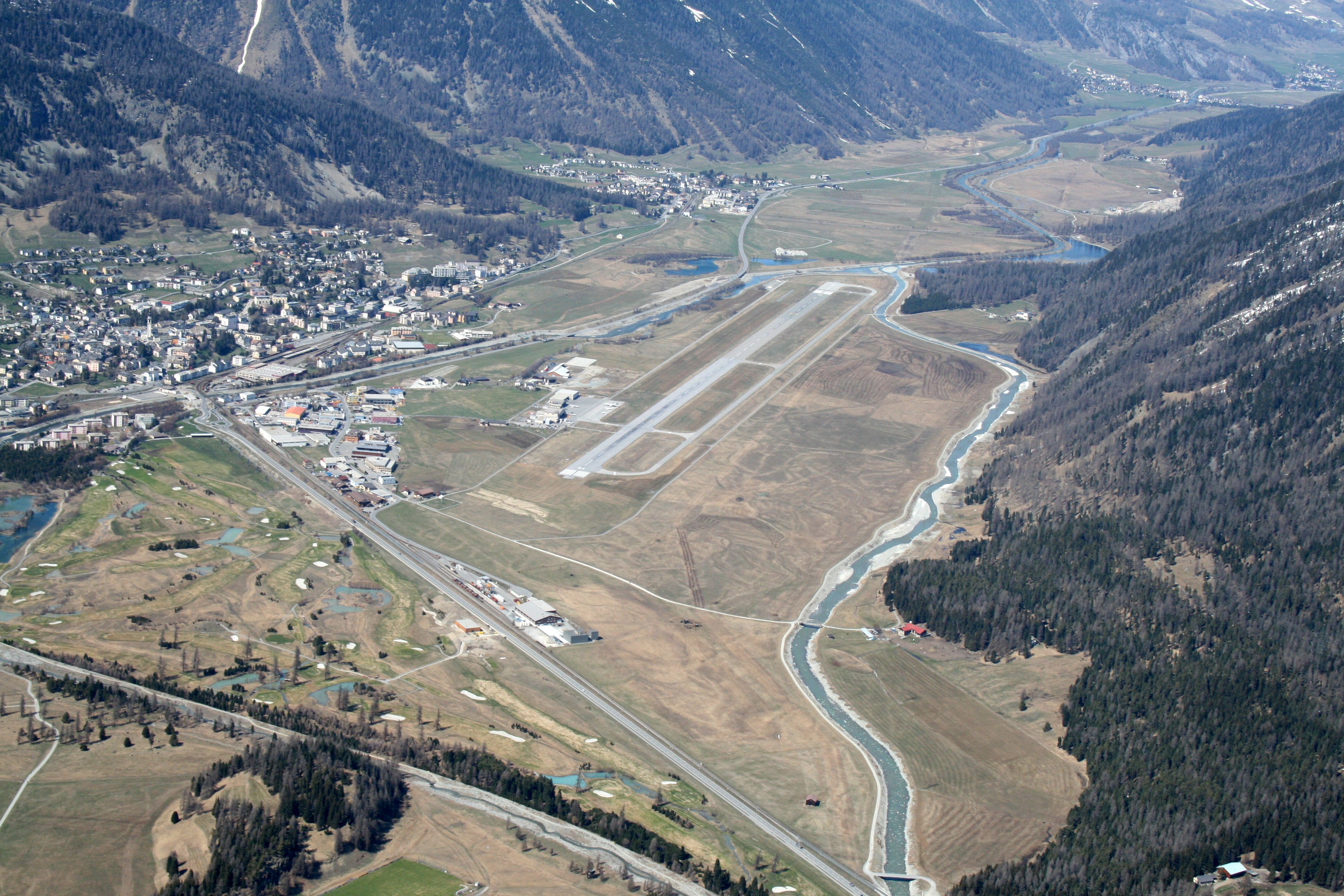 Overview of Samedan Airport